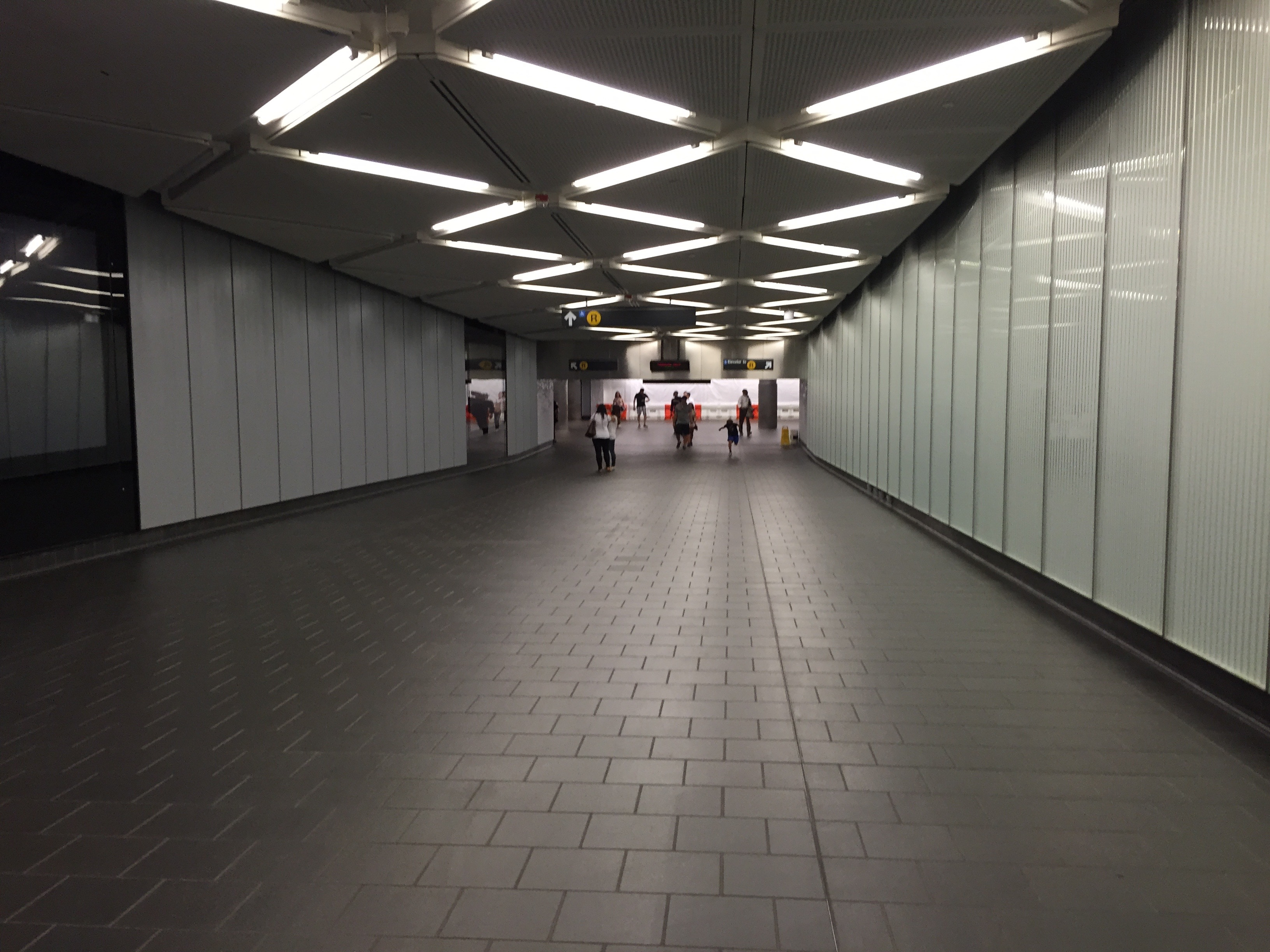 Dey Street Passageway, facing towards the Cortlandt Street R station.